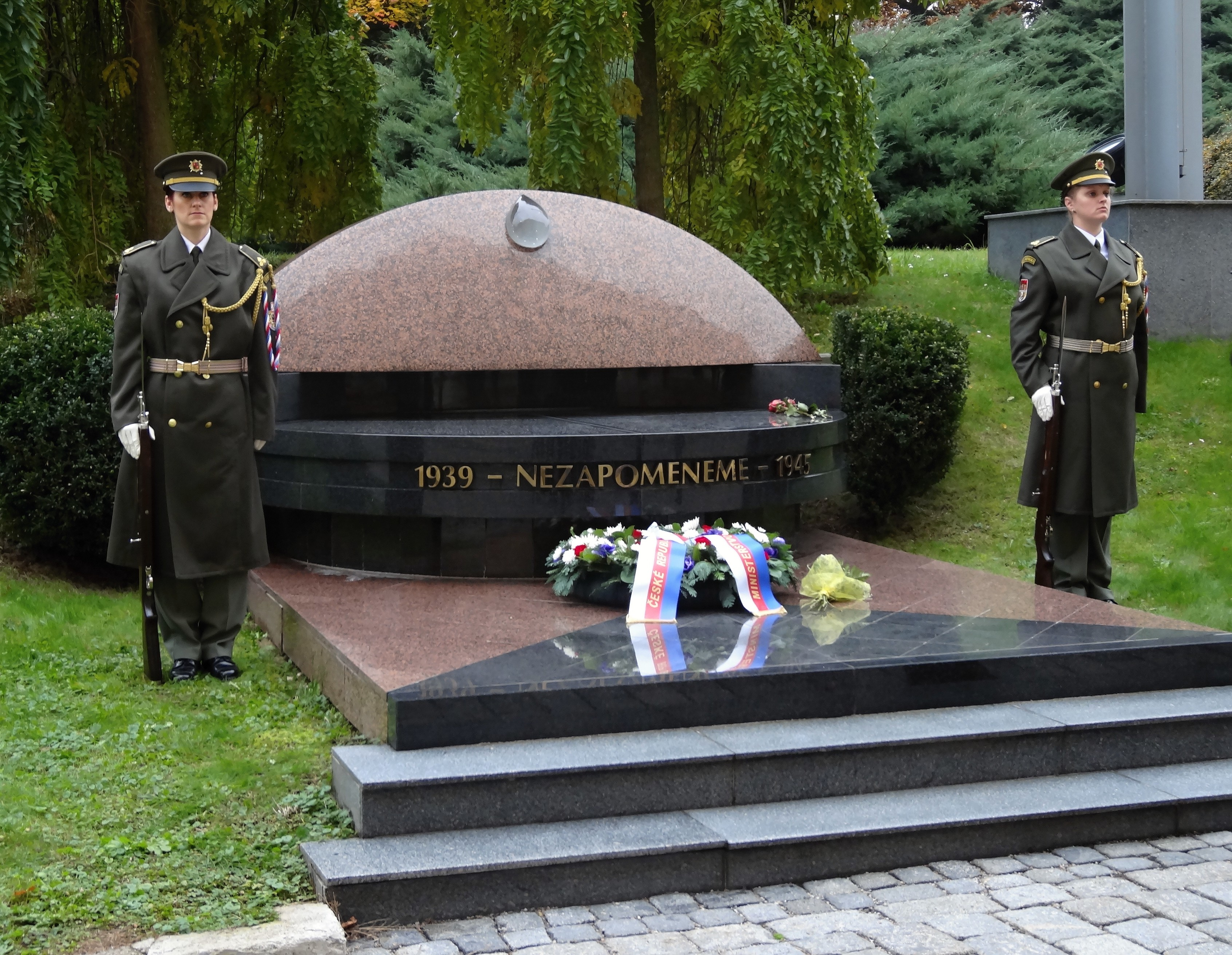 Monument of General Staff officers, victims from 1939 - 1945. Memorial is dedicated to remember of all killed and executed graduates of the University of wartime. The monument is located in Prague 6, Tychonova street 270/2 (in front of the headquarters of the Ministry of Defence). The monument was unveiled on 11 November 2004. The monument was created by sculptor Peter Nižňanský.